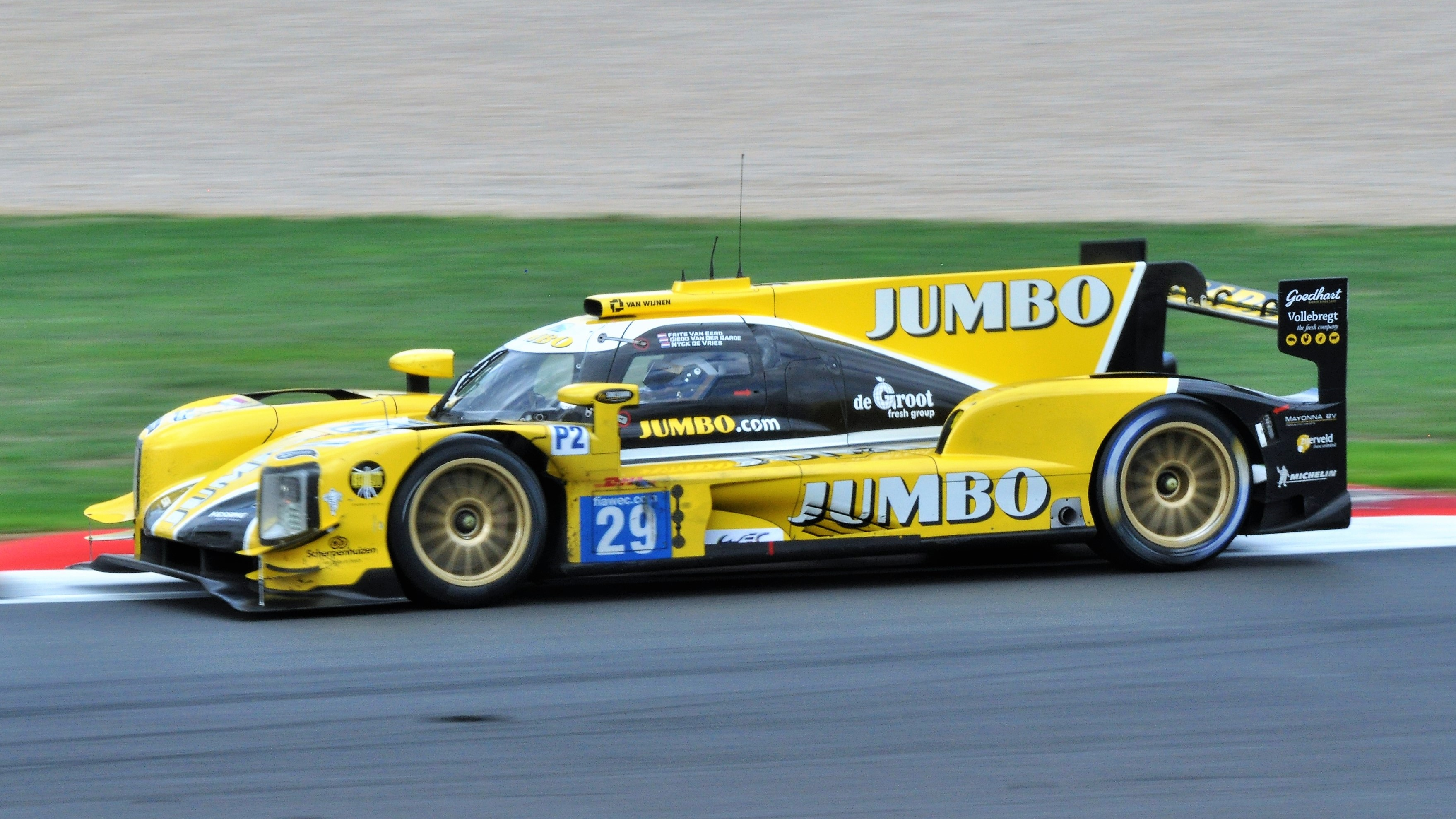 Dutch driver Giedo van der Garde slips the Racing Team Nederland-entered Dallara P217 in to Club corner during the 2018 6 Hours of Silverstone race. Van der Garde and his co-drivers, compatriots Frits van Eerd and Nyck de Vries, finished fifth in the LMP2 class.